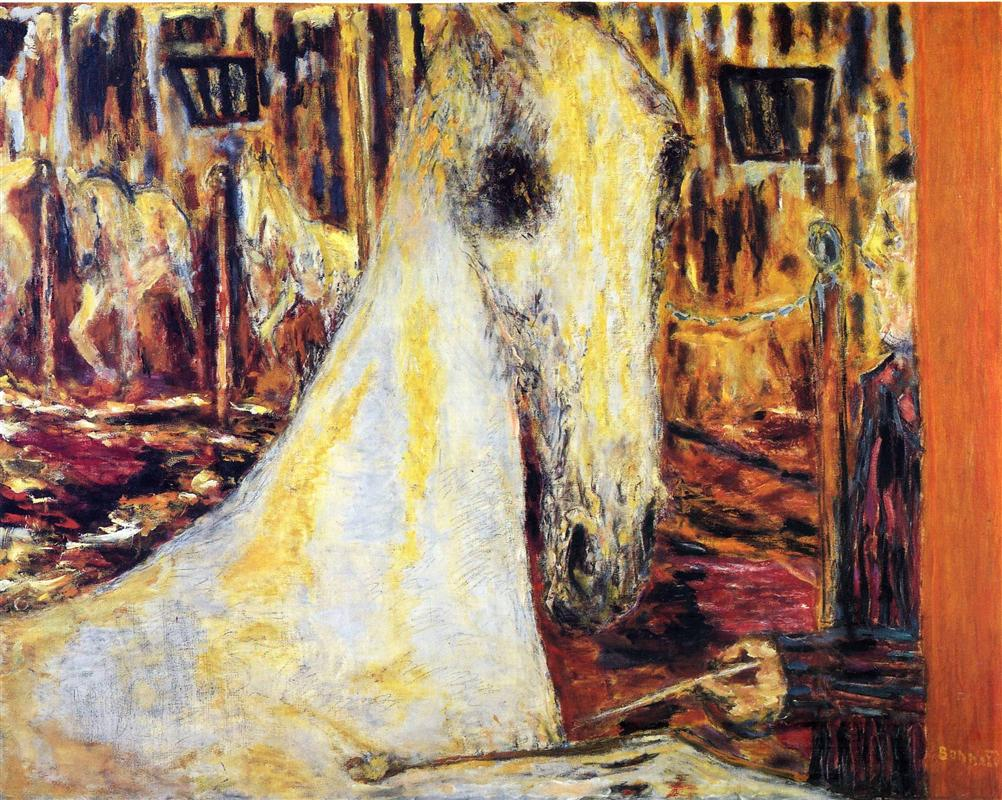 Painting by Pierre Bonnard